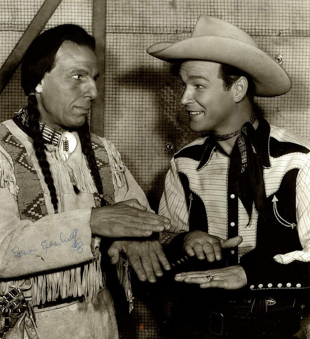 Iron Eyes Cody (left) & Roy Rogers in North of the Great Divide - publicity still (cropped)